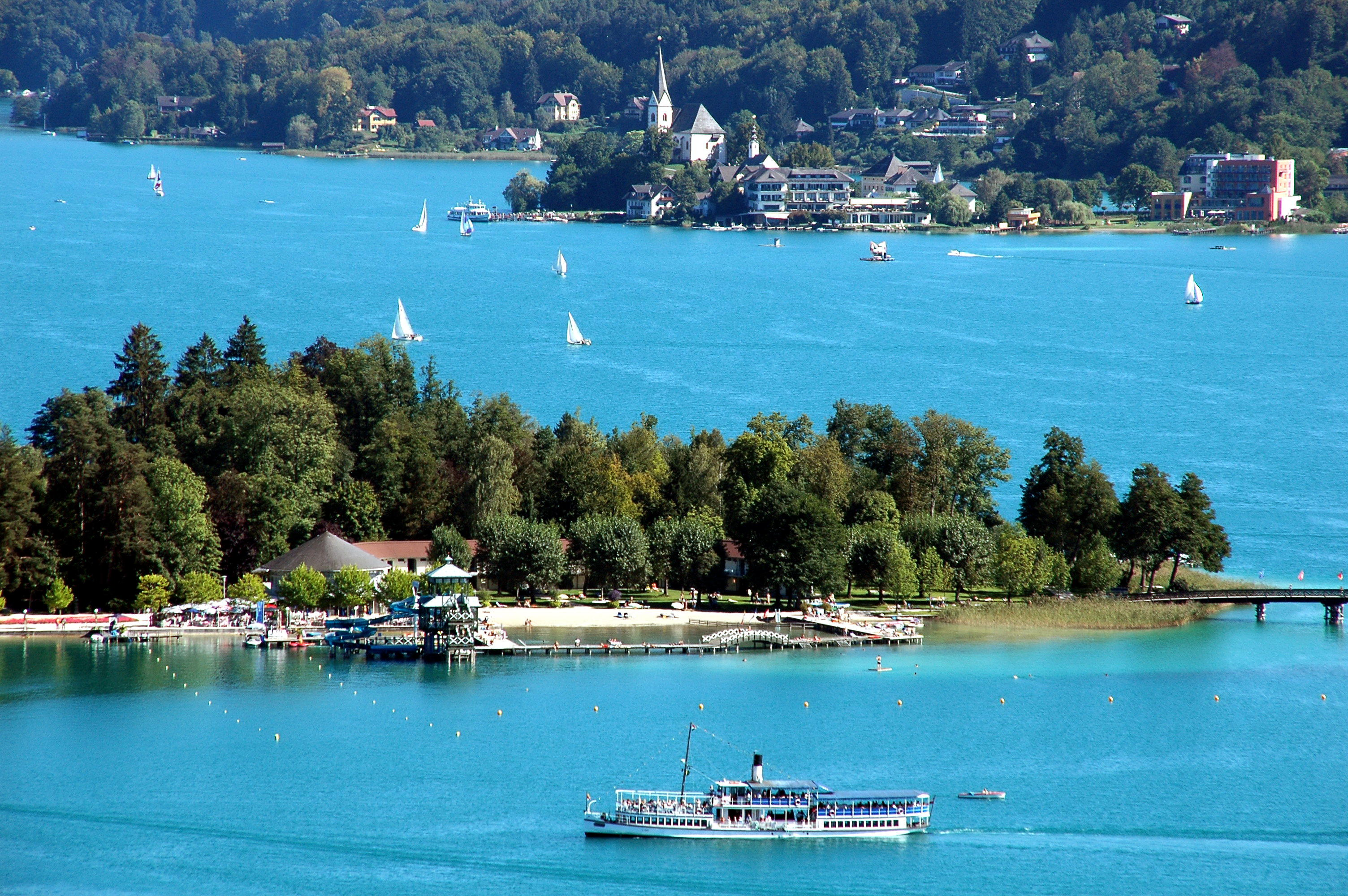 Passenger ship "Thalia" in the west bay, municipality Poertschach on the Lake Woerth, district Klagenfurt Land, Carinthia, Austria, EU